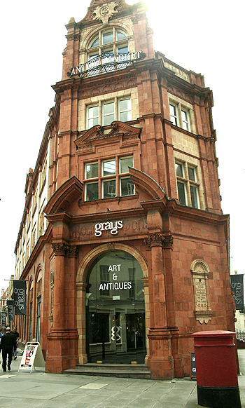 Exterior view of Grays Antique Market